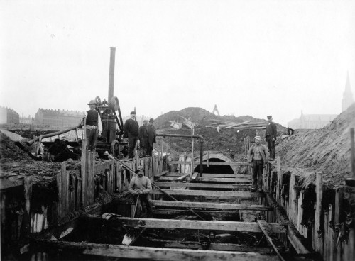 Workers covering Ladegårdsåen in Copenhagen, Denmark. The site is now the section of Åboulevard between Bülowsvej and the Lakes. A traction engine (locomobile) is used to pump away the Water.